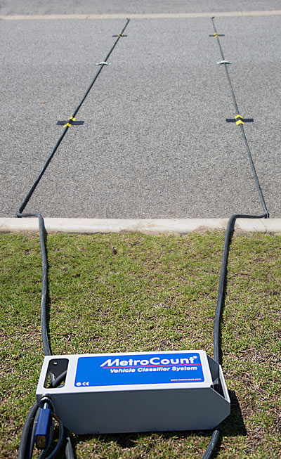 MetroCount Pnuematic Tube Traffic Counter for collecting axle information on roads.